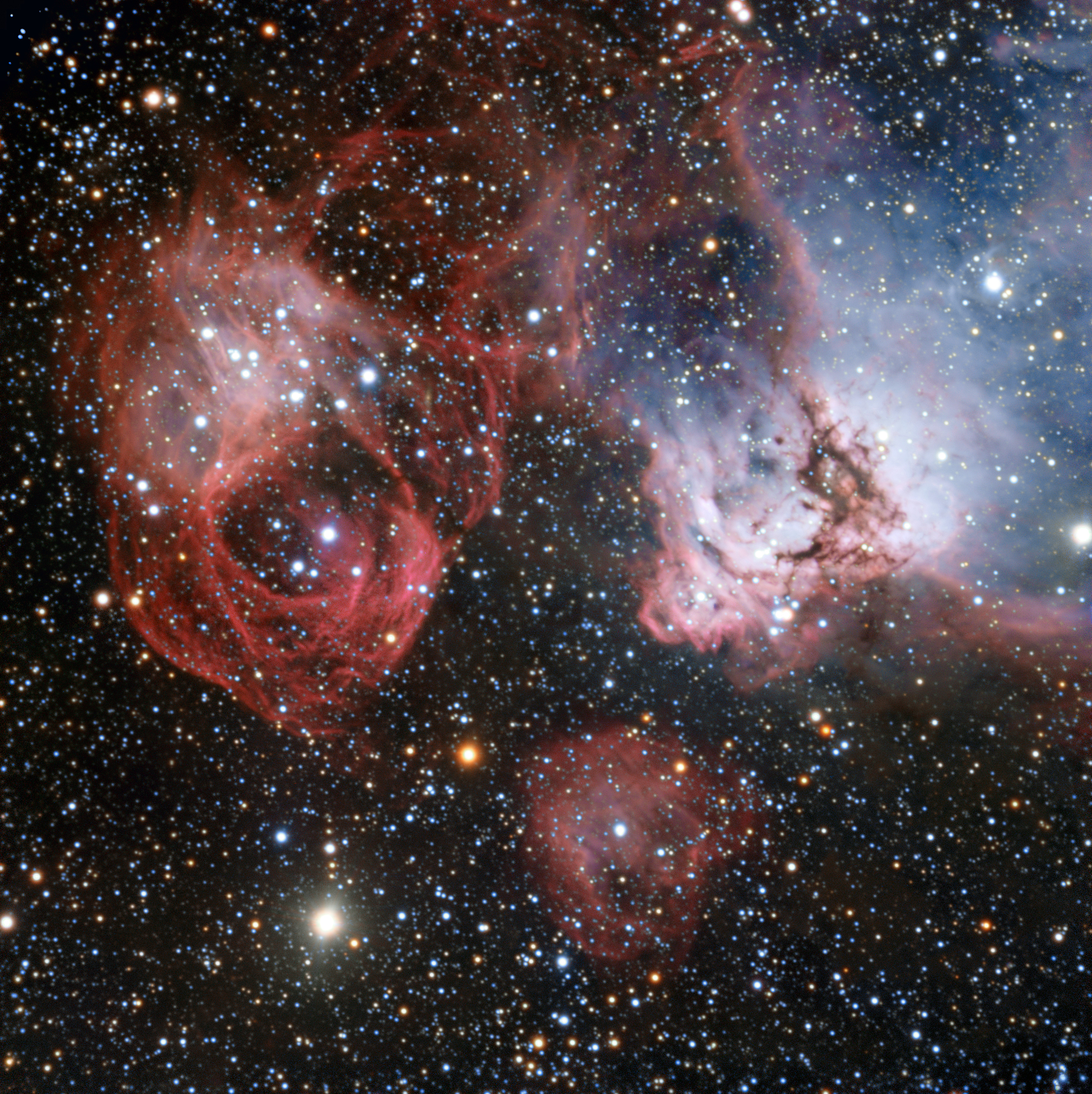 The Large Magellanic Cloud is one of the closest galaxies to our own. Astronomers have now used the power of the ESO’s Very Large Telescope to explore NGC 2035, one of its lesser known regions, in great detail. This new image shows clouds of gas and dust where hot new stars are being born and are sculpting their surroundings into odd shapes. But the image also shows the effects of stellar death — filaments created by a supernova explosion (left).